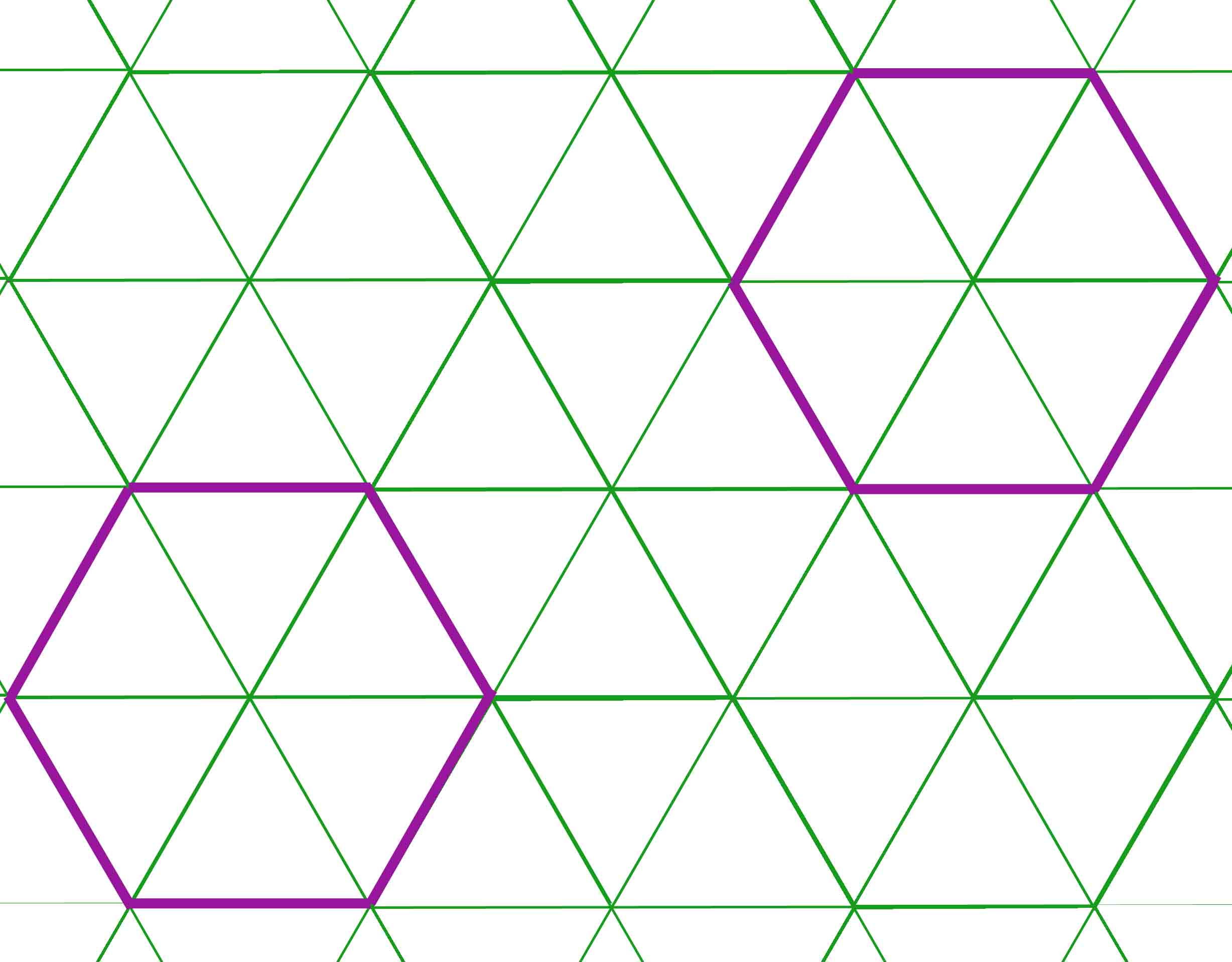 Exemple of a lattice based on hexagone figure.